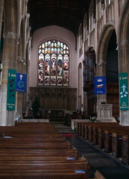 Interior of St Andrew's Church, Norwich, England December 2014